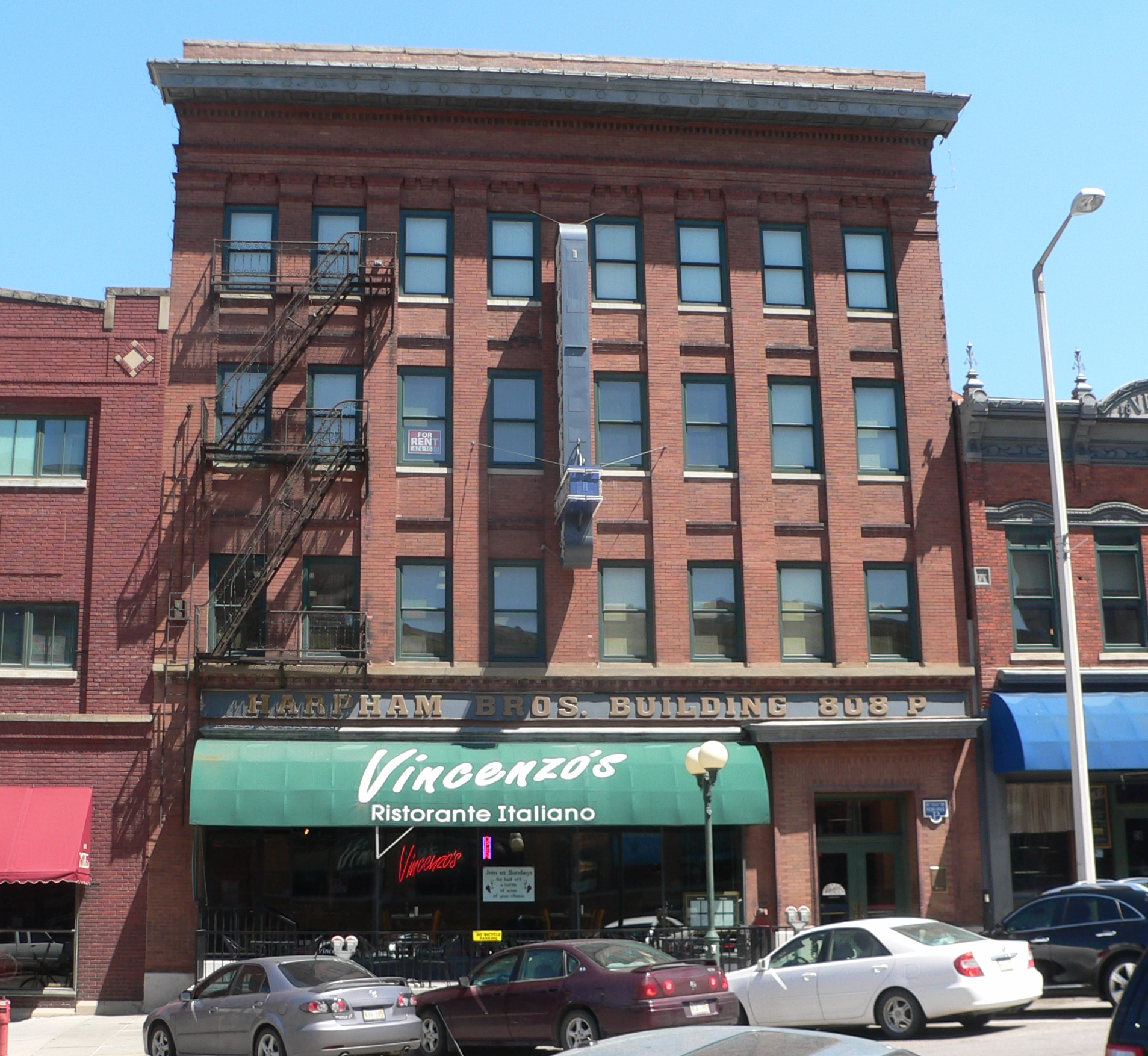 Haymarket District in Lincoln, Nebraska: Harpham building, located at 808 P Street. According to a plaque on the building, it was built as a warehouse and as a harness and saddle factory in 1903.